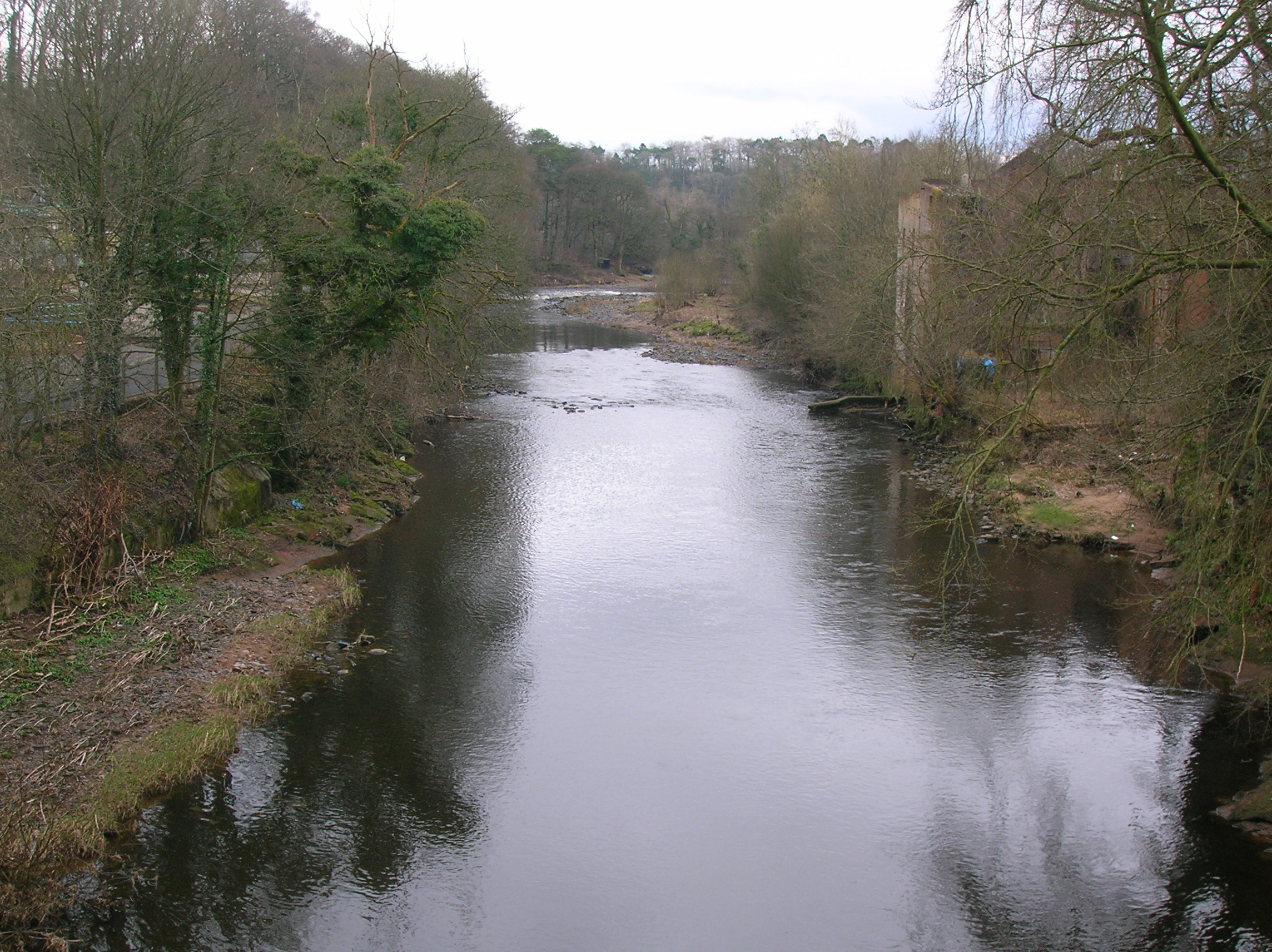 A view of the River Ayr from Old Barskimming Bridge, Mauchline, Scotland.